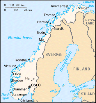 Map of the mainland of Norway. with Swedish names.